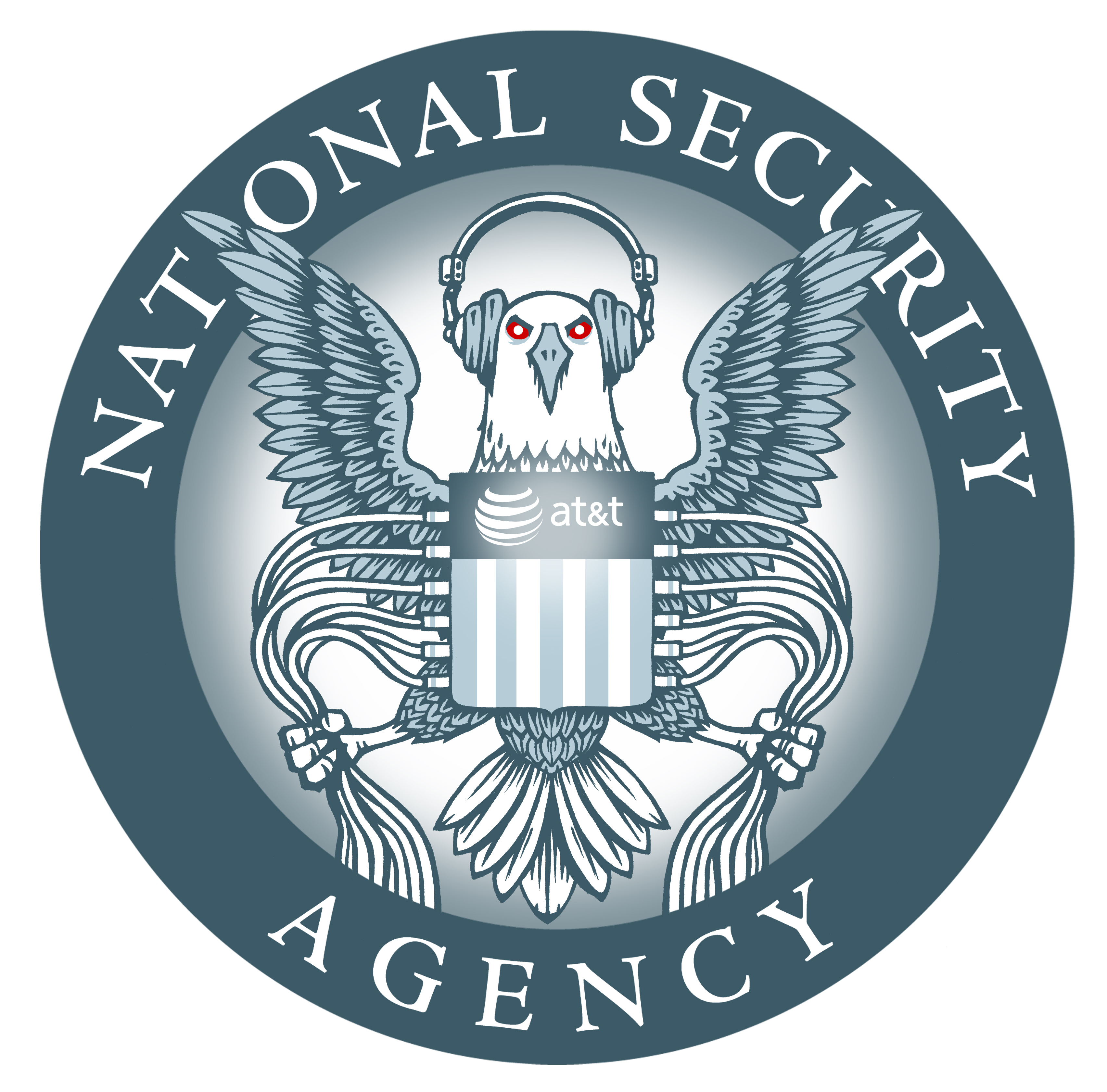 EFF's logo for their case against the government seeking to stop the spying operation run by the NSA, which the EFF claimed was illegal. For